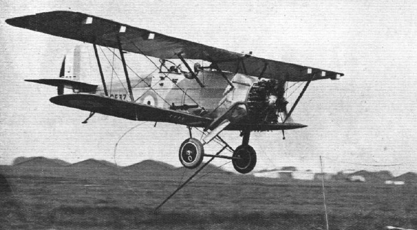 Armstrong Whitworth Atlas picking up a message